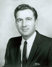 former Congressman and Governor of Tennessee Ray Blanton.